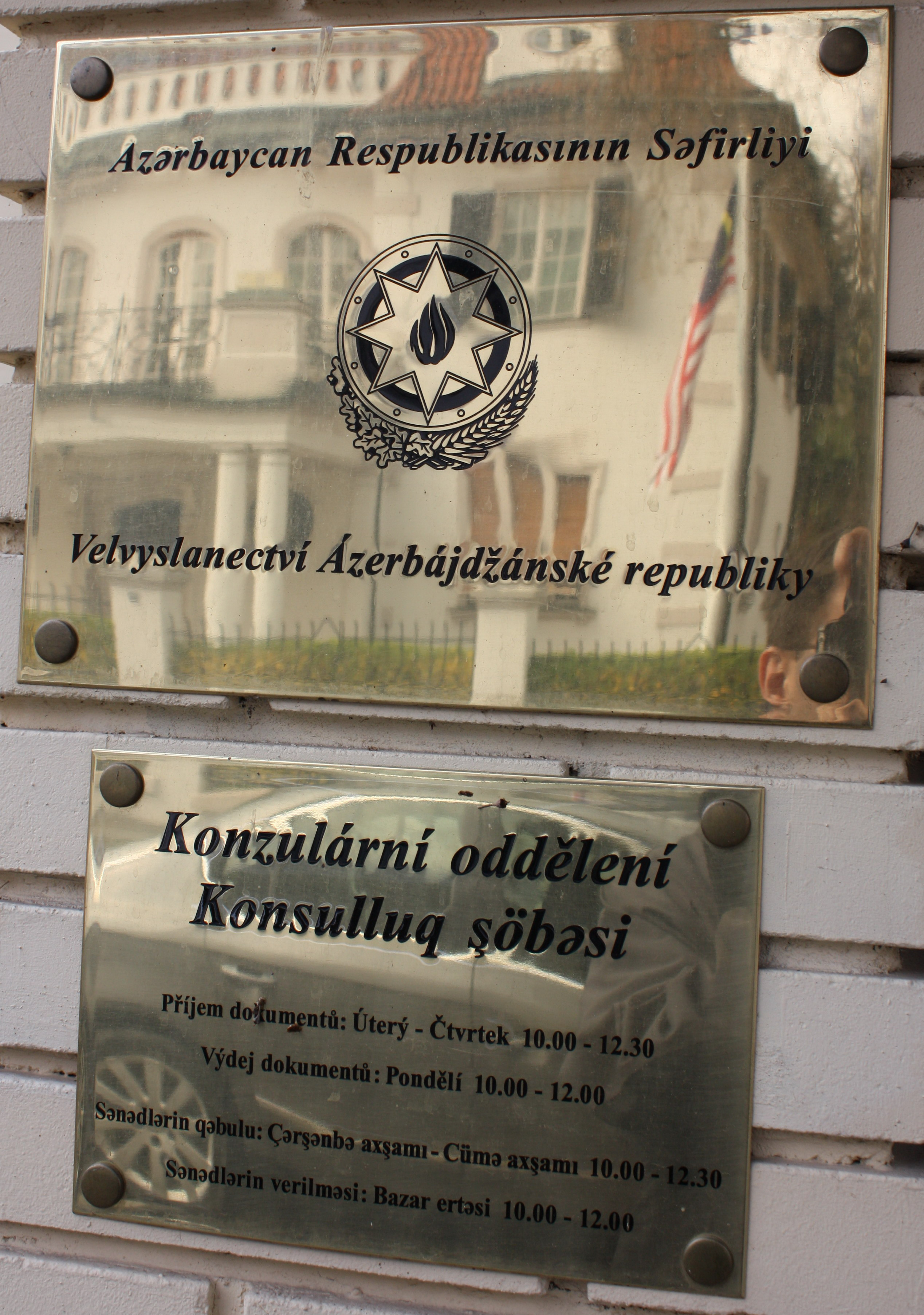 Coat of arms on Azerbaijani Embassy in Prague, Czechia